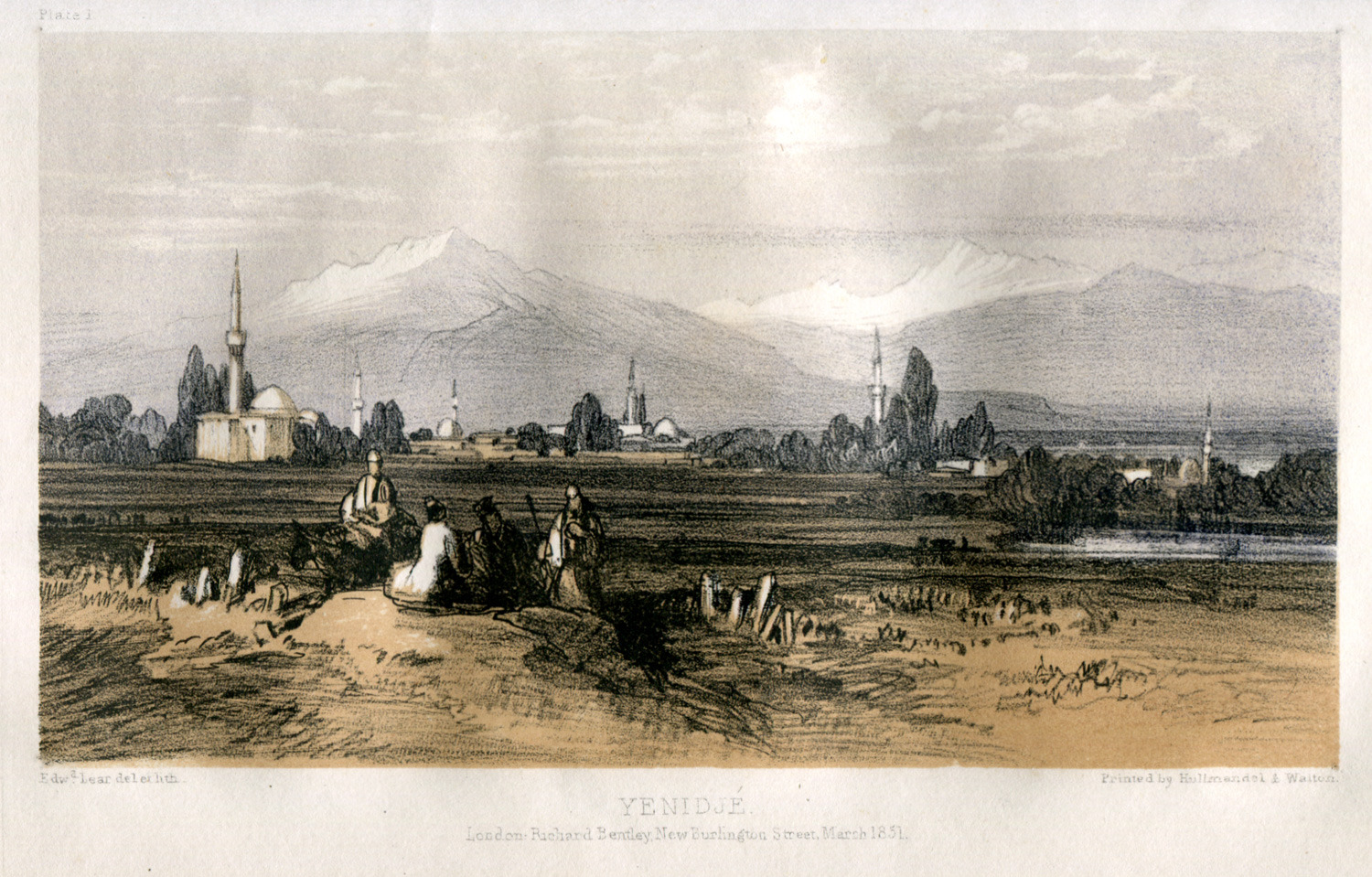 Yenidjé - Lear Edward - 1851